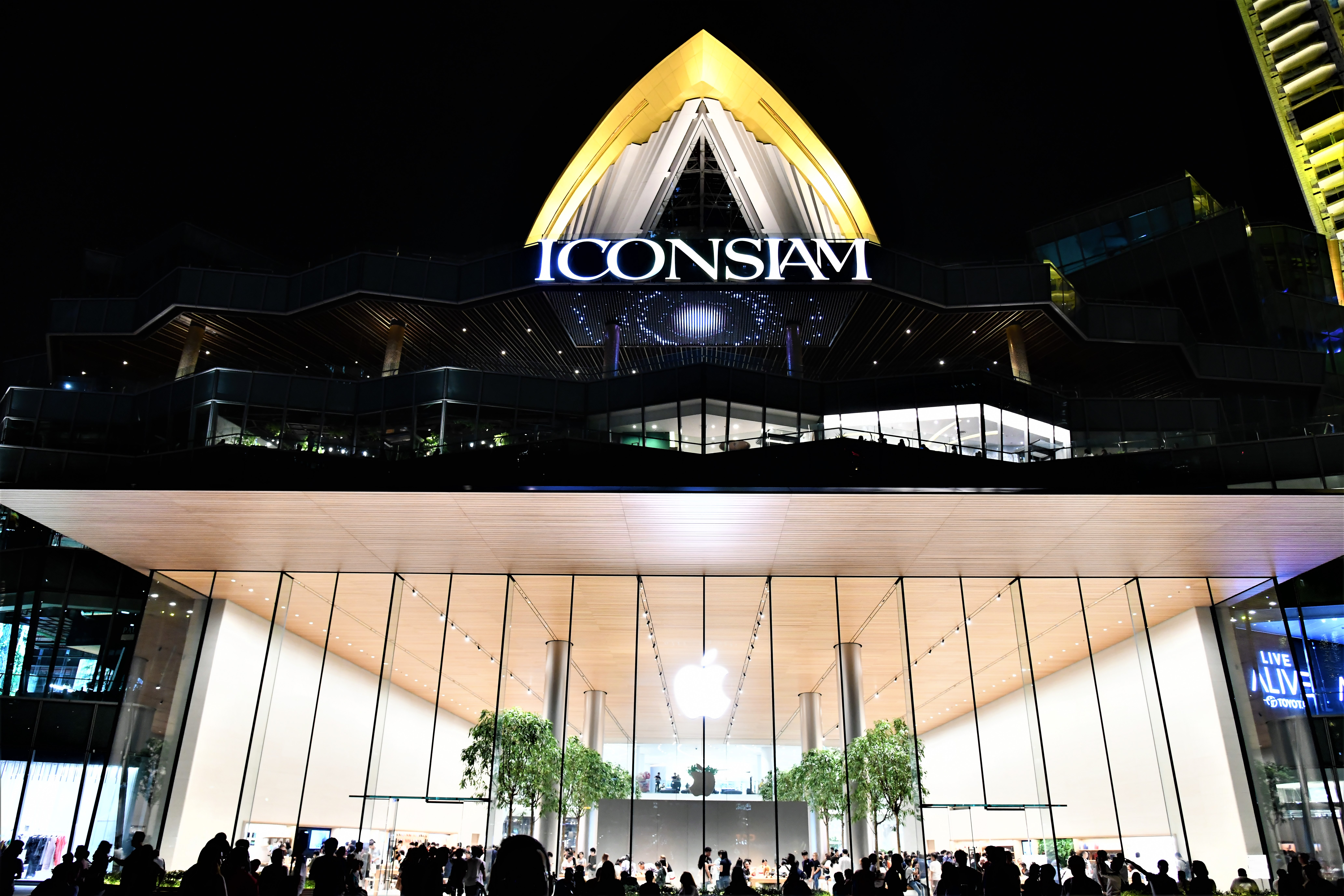 High End Condominium & Department Store of Thailand Grand Openning Icon Siam 10 November 2018